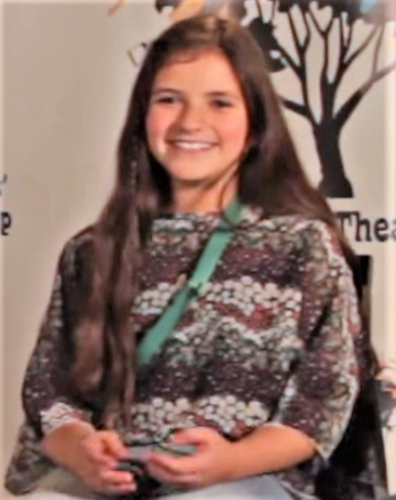 Eva Bella Comes to Camp! Summer 2014 Session 1 American child actress Eva Bella at Young Actors' Theatre Camp. The Young Actors' Theatre Camp (YATC) is a multiple award-winning overnight theatre camp where kids of all ages and experience levels from across the country and around the world have the opportunity to explore a life in the performing arts in a safe and supportive peer environment. Since 2002, YATC has brought industry professionals from Hollywood and Broadway to teach students daily classes in acting, singing, dancing and filmmaking. Consistently voted a Gold Medal Winner and Family Favorite as the Bay Area's "Best Overnight Camp" by Bay Area Parent magazine, YATC was inducted into the magazine's "Hall of Fame" in 2011. Celebrity master class teachers this summer include: Jonathan Groff, Thomas Sadoski, Sutton Foster, Skylar Astin, Jim O'Heir & many more. "Discover and develop the Artist Within!"